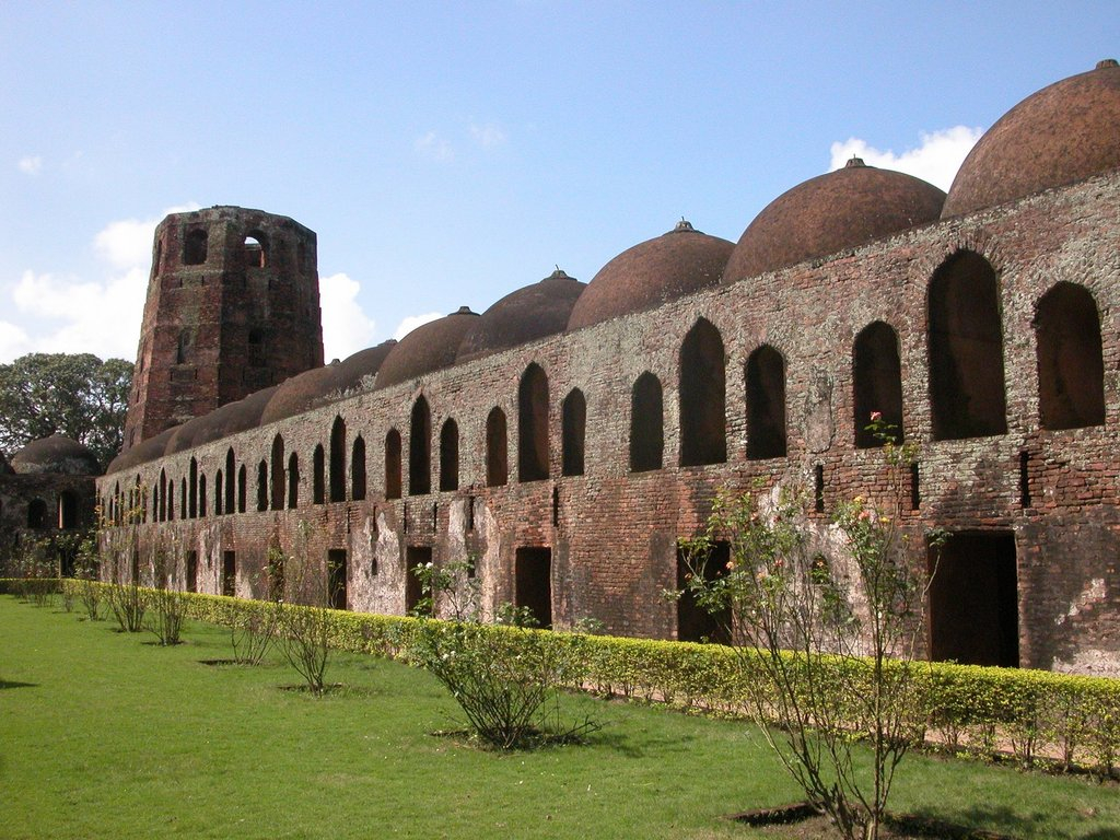 katra mosque of murshidabad,1723 AD.